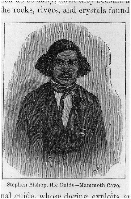 an engraving showing Stephen Bishop, noted explorer of Mammoth Cave